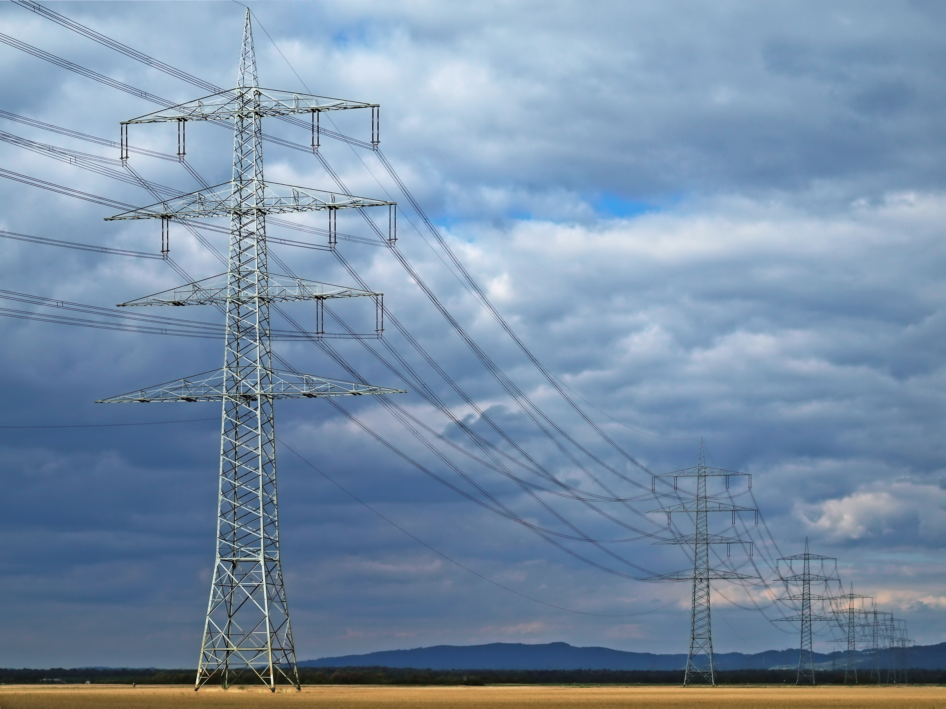 380 kV power lines at Biblis nuclear power plant, Germany